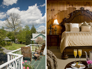 1906 Pine Crest Inn | Country Inn Bed & Breakfast in Tryon, NC